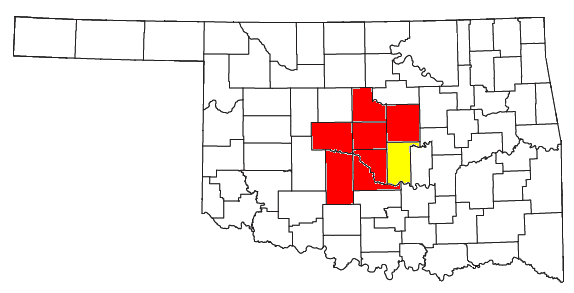 Locator map of the Oklahoma City Metropolitan Statistical Area in the central part of the U.S. state of Oklahoma, highlighted in red. Yellow denotes Pottawatomie County, which is added to the metro area to form the Oklahoma City-Shawnee CSA.